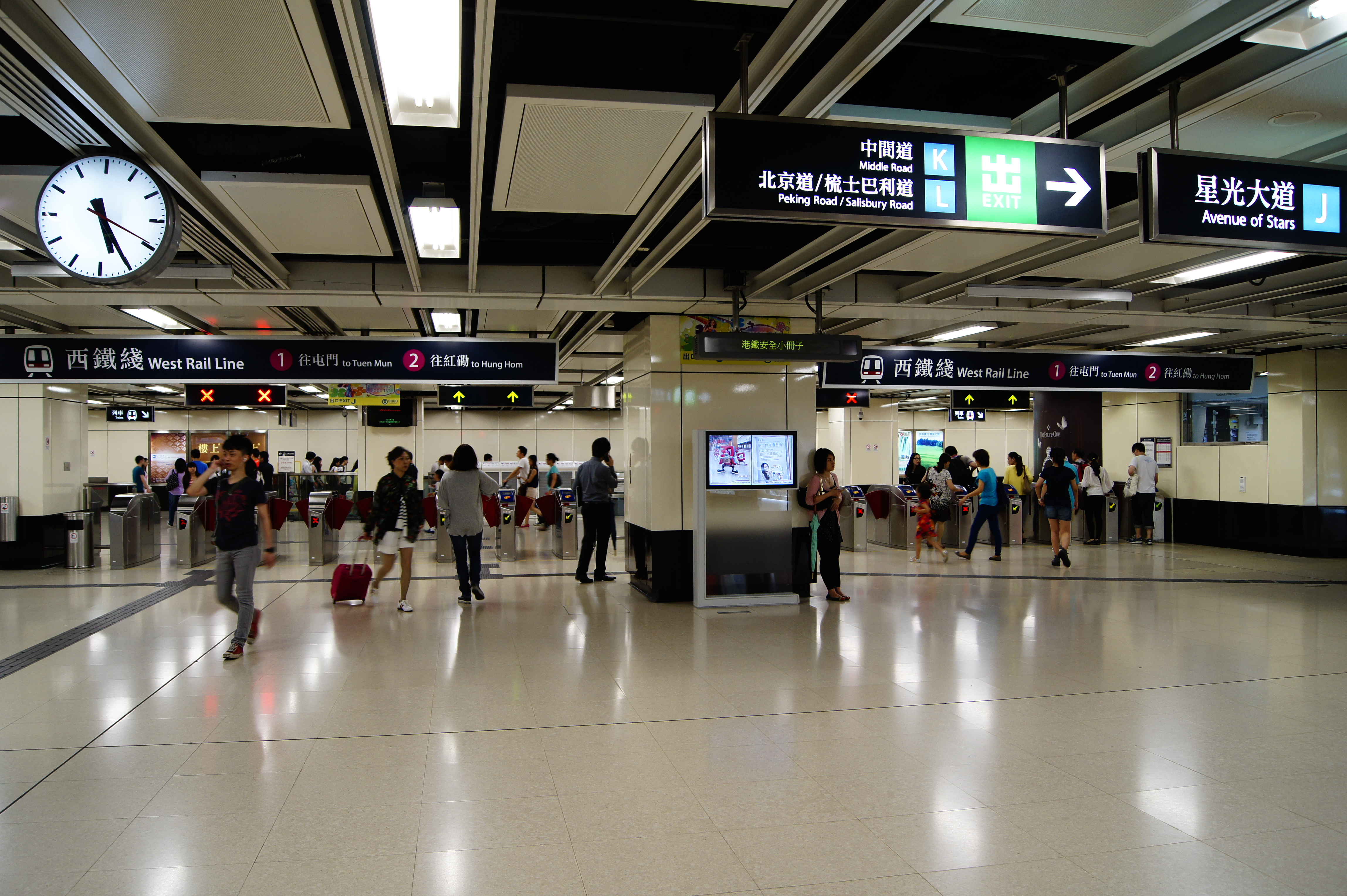 MTR East Tsim Sha Tsui Station concourse (near Exit K)